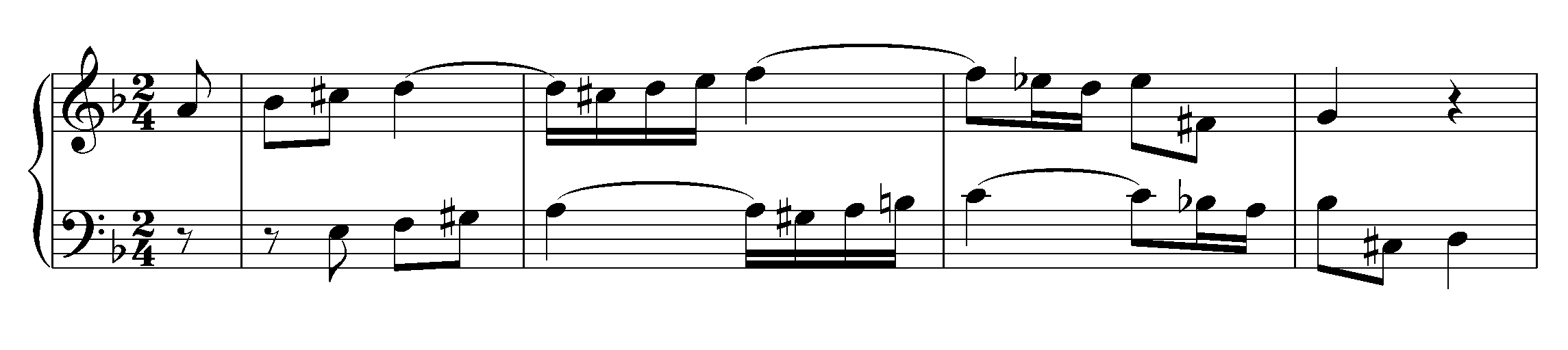 Example of bitonality. BWV 803.